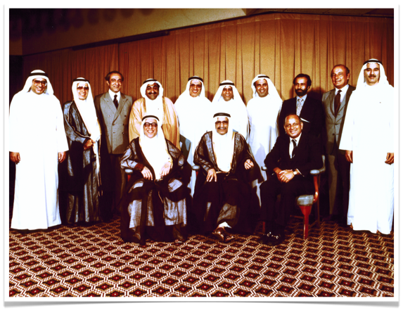 Investcorp's First Board of Directors. Picture taken 1982. Jawad Hashim appears in back-row (3rd from left) and Nemir Kirdar appears front-row (right).